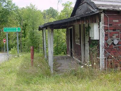 The old post office of Points, West Virginia located at the intersection of Jersey Mountain (CR 5) and Springfield Grade (CR 3) Roads. Once abandoned, the old building and its property have been recently purchased.